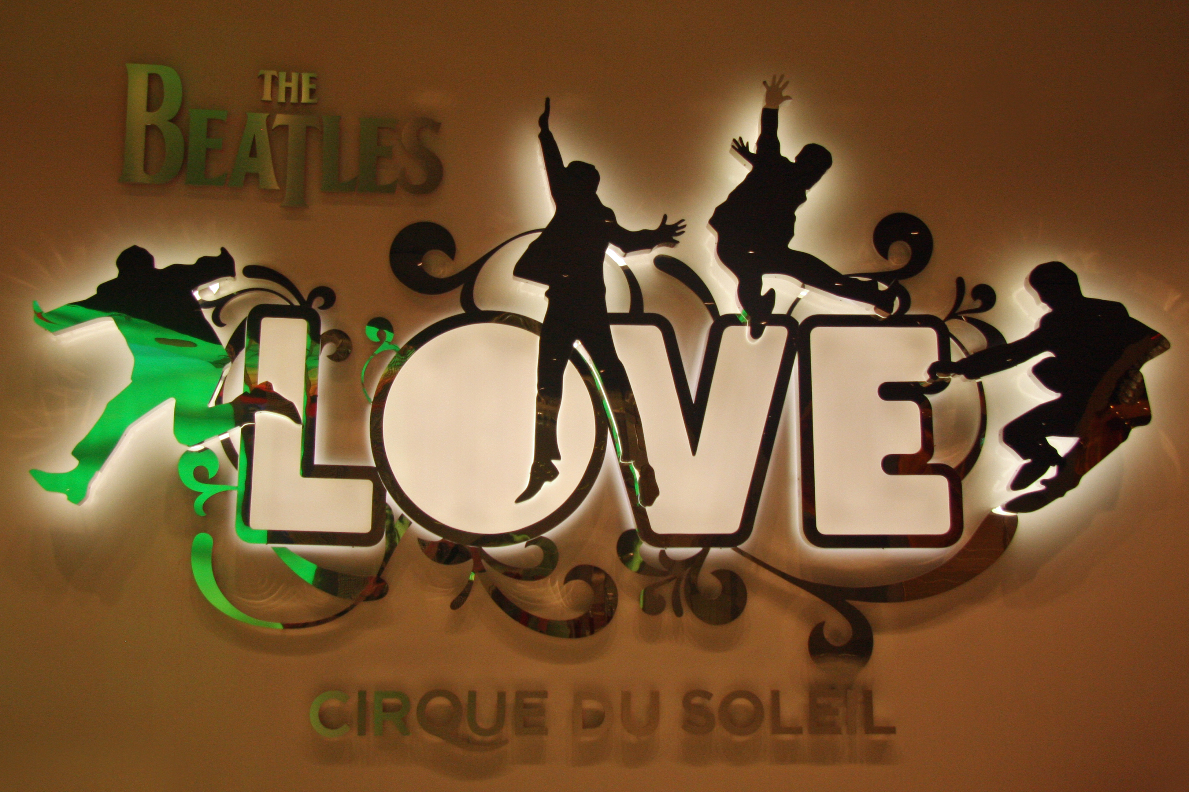 The Beatles "Love" at The Mirage